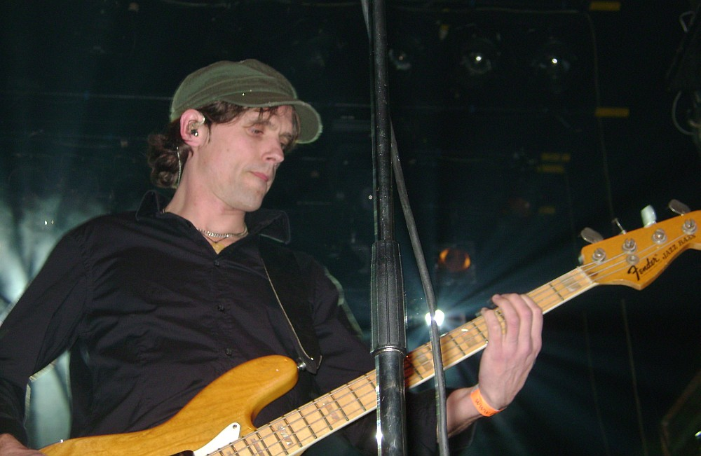 Stefan de Kroon, bassguitarist of Dutch band Racoon, live in Utrecht, March 26, 2008